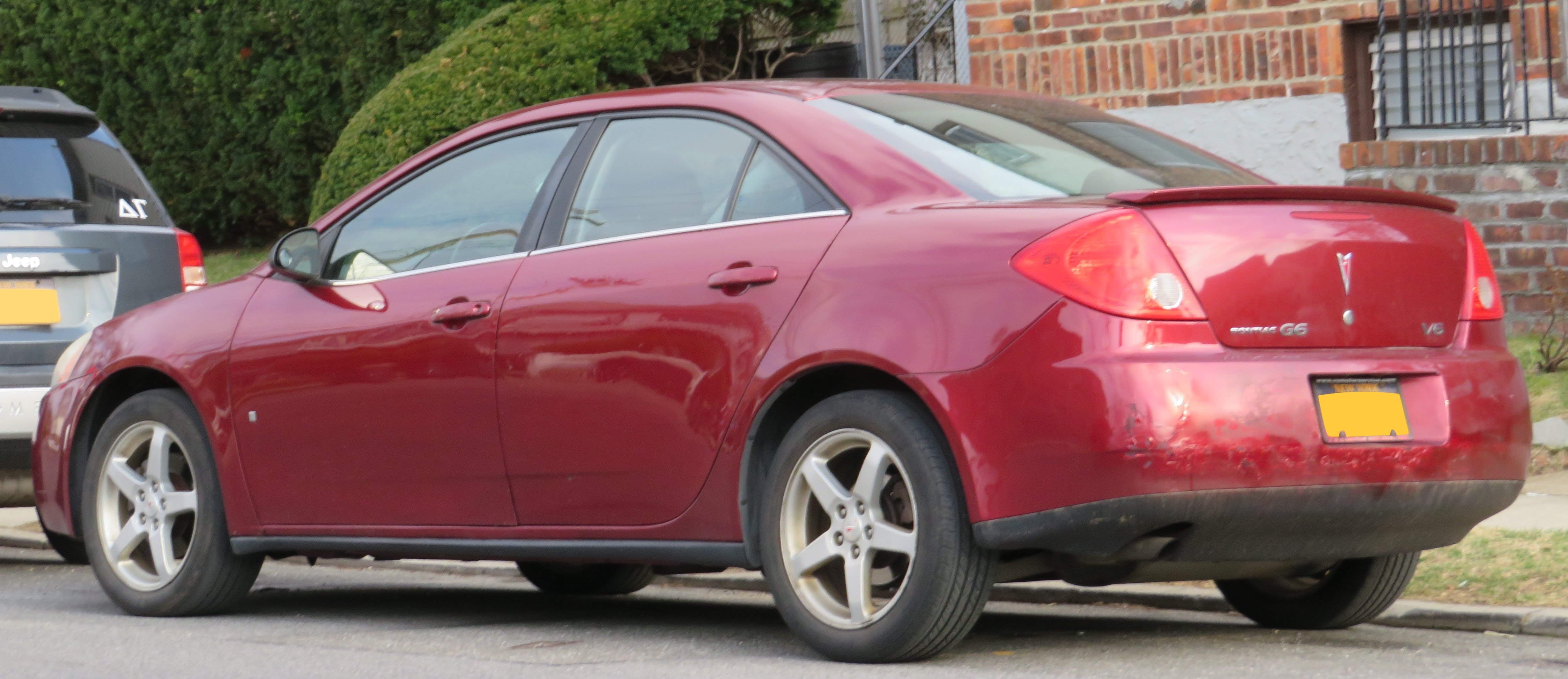 In Queens, New York